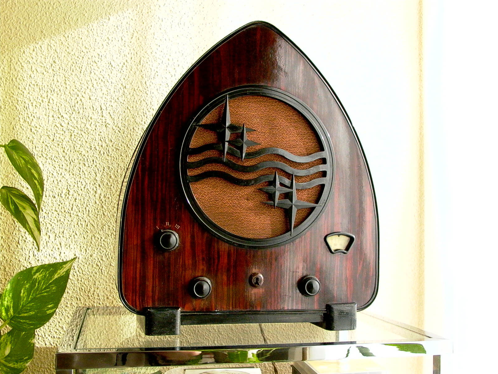 Philips Radio 930A (1931)